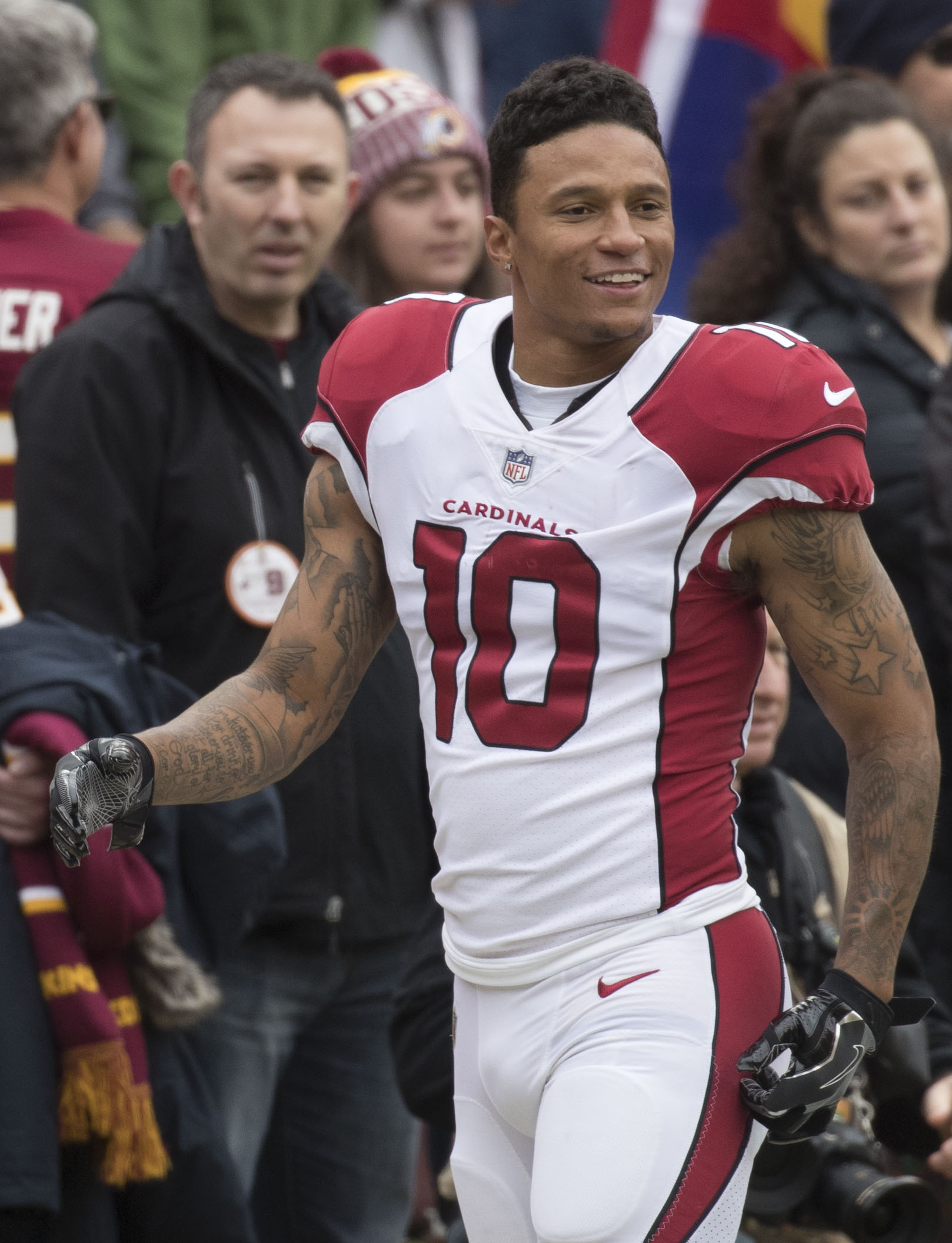 Arizona Cardinals wide receiver, Brittan Golden, in a game against the Washington Redskins on December 17, 2017.